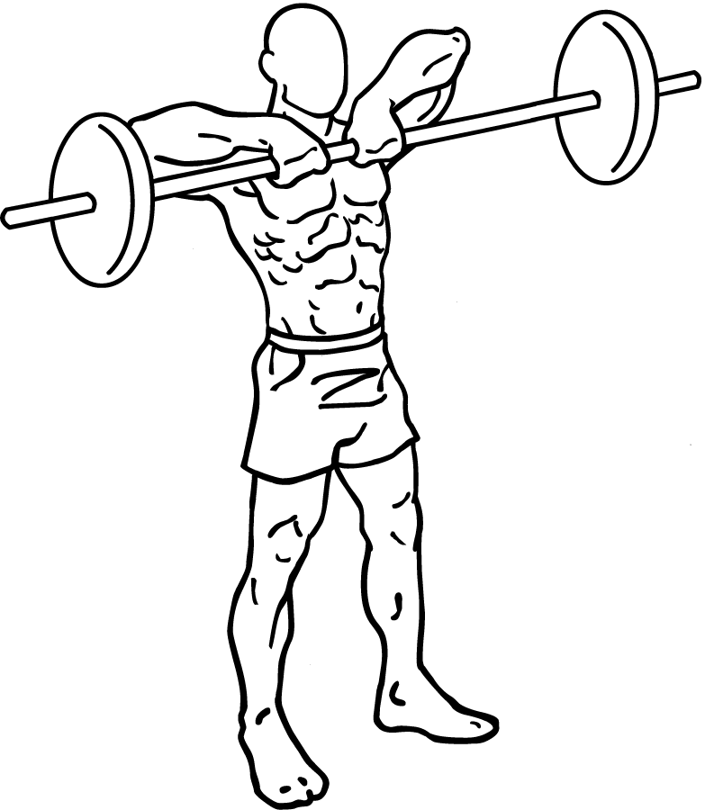 an exercise of shoulders